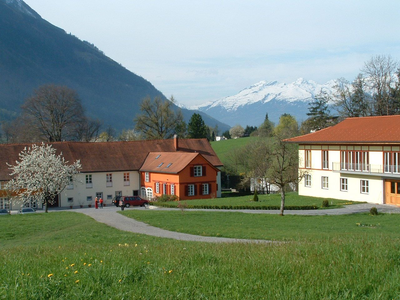 Buddhist Monastery Letzehof (Tashi Rabten) at Feldkirch, Austria